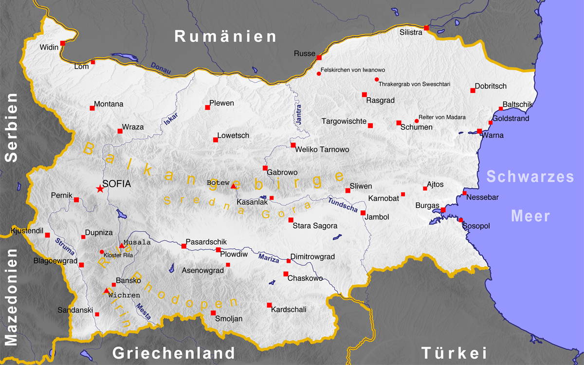 This is a map of cities and other places of interest in Bulgaria. The names of provincial capitals are accompanied by a big square, those of the other cities by a smaller one (regardless of their size and population).